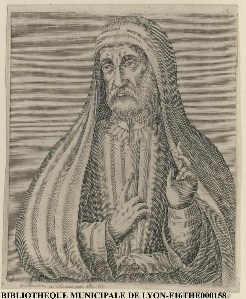 Portrait of archbishop William of Tyre (c. 1130 – 29 September 1186), medieval chronicler, drawing by André Thévet (1504-1592)